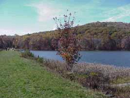 The southern bank of Summit Lake from earthen dam